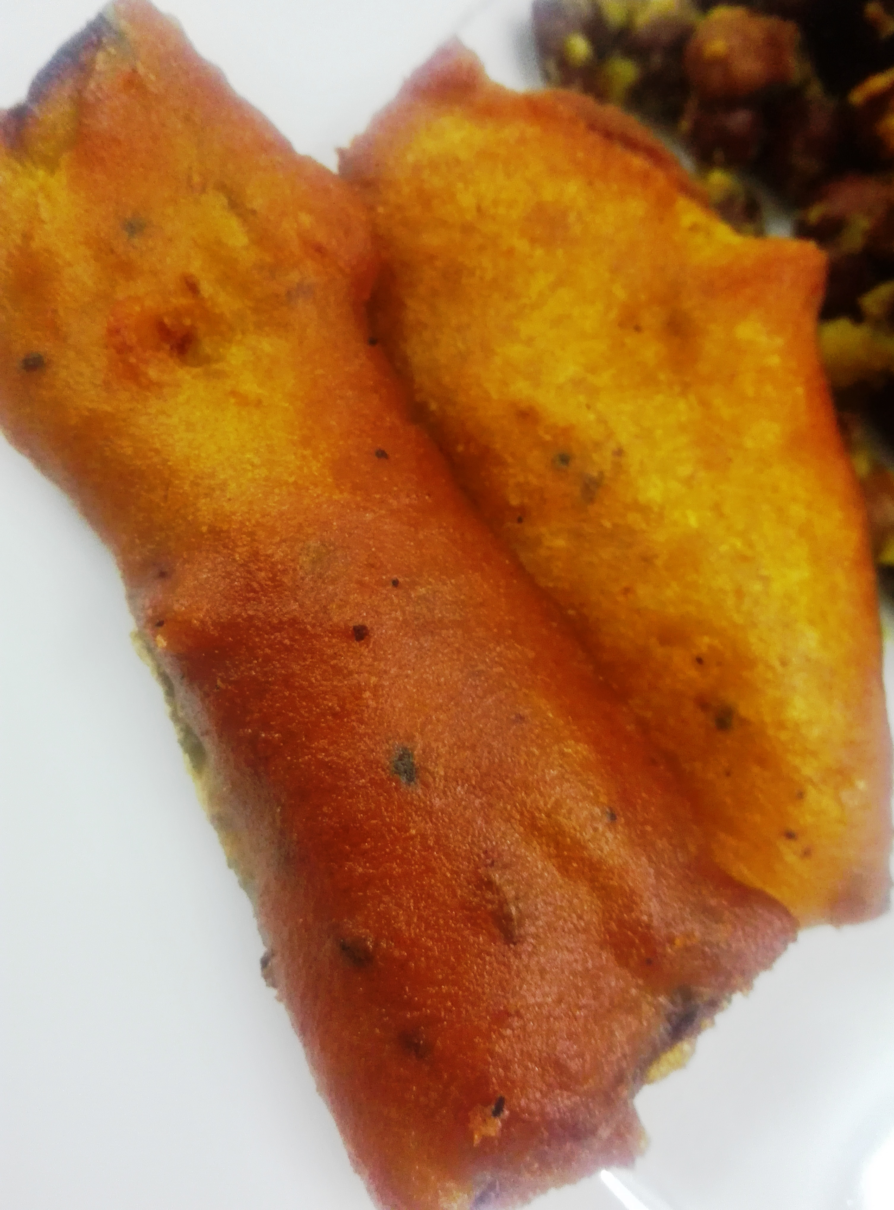 Beguni is a Bengali food items made of Eggplant.